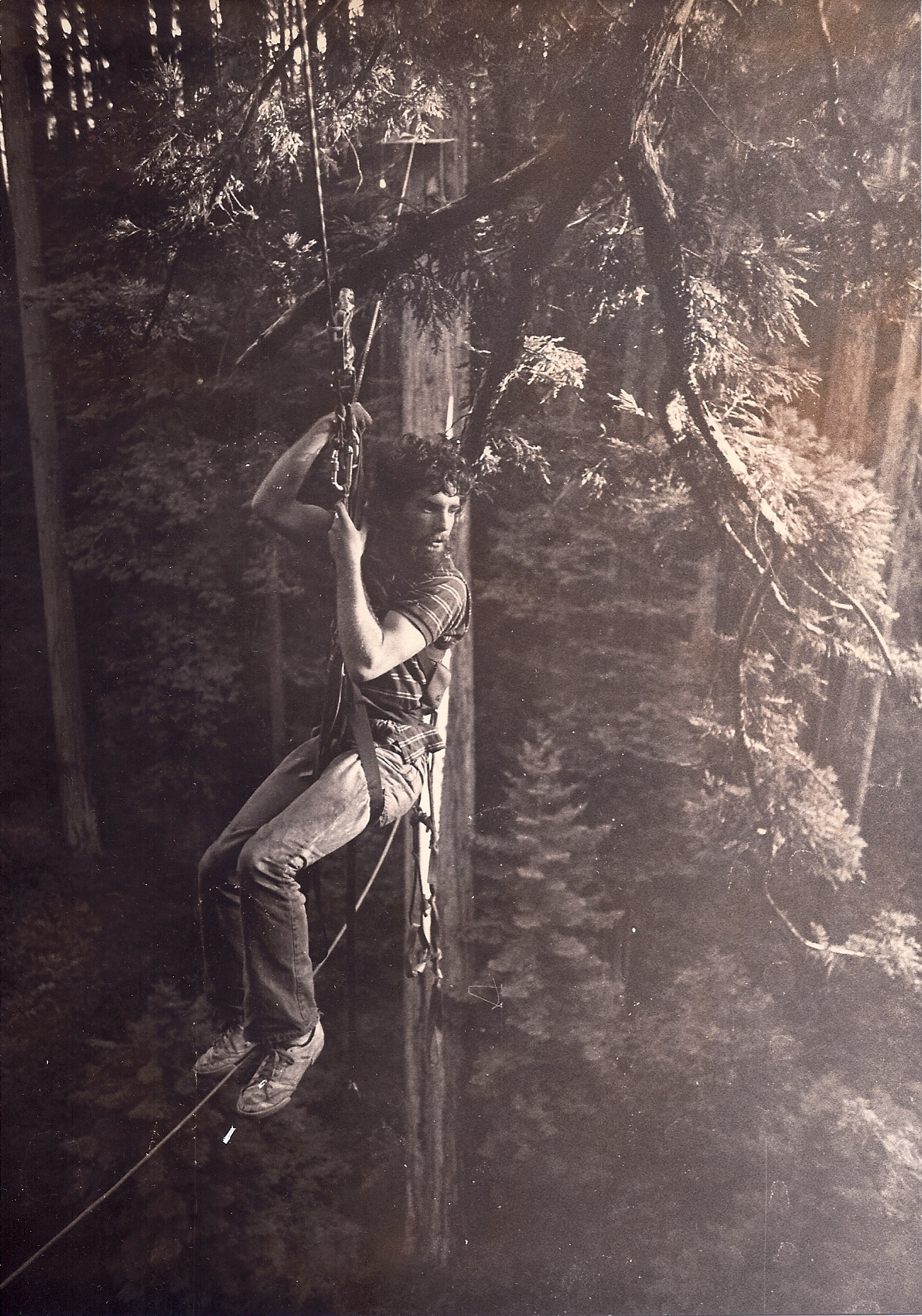 Greg King in All Species Grove.